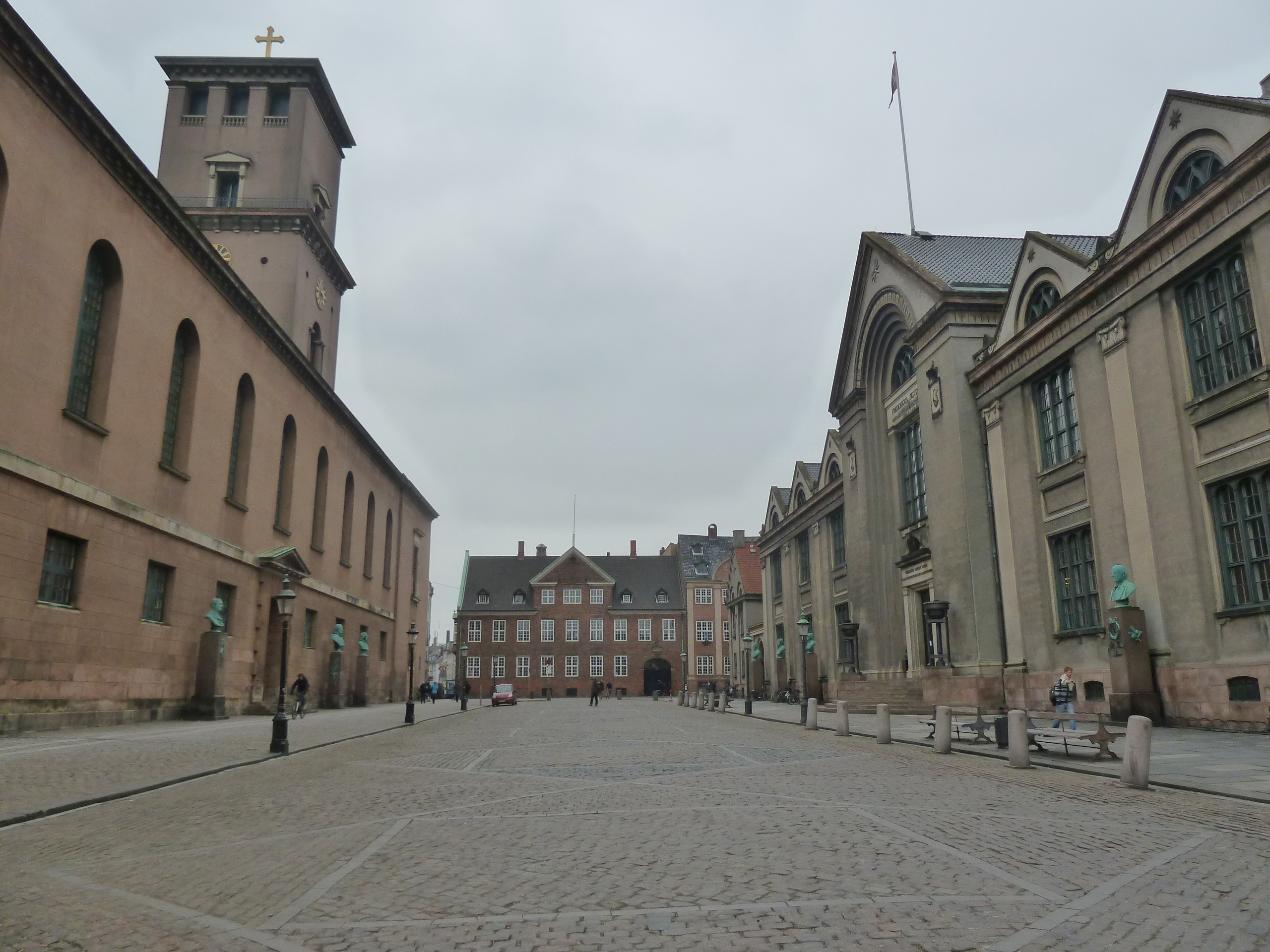 The square Frue Plads beside the Copenhagen Cathedral Vor Frue Kirke in Indre By in Copenhagen.